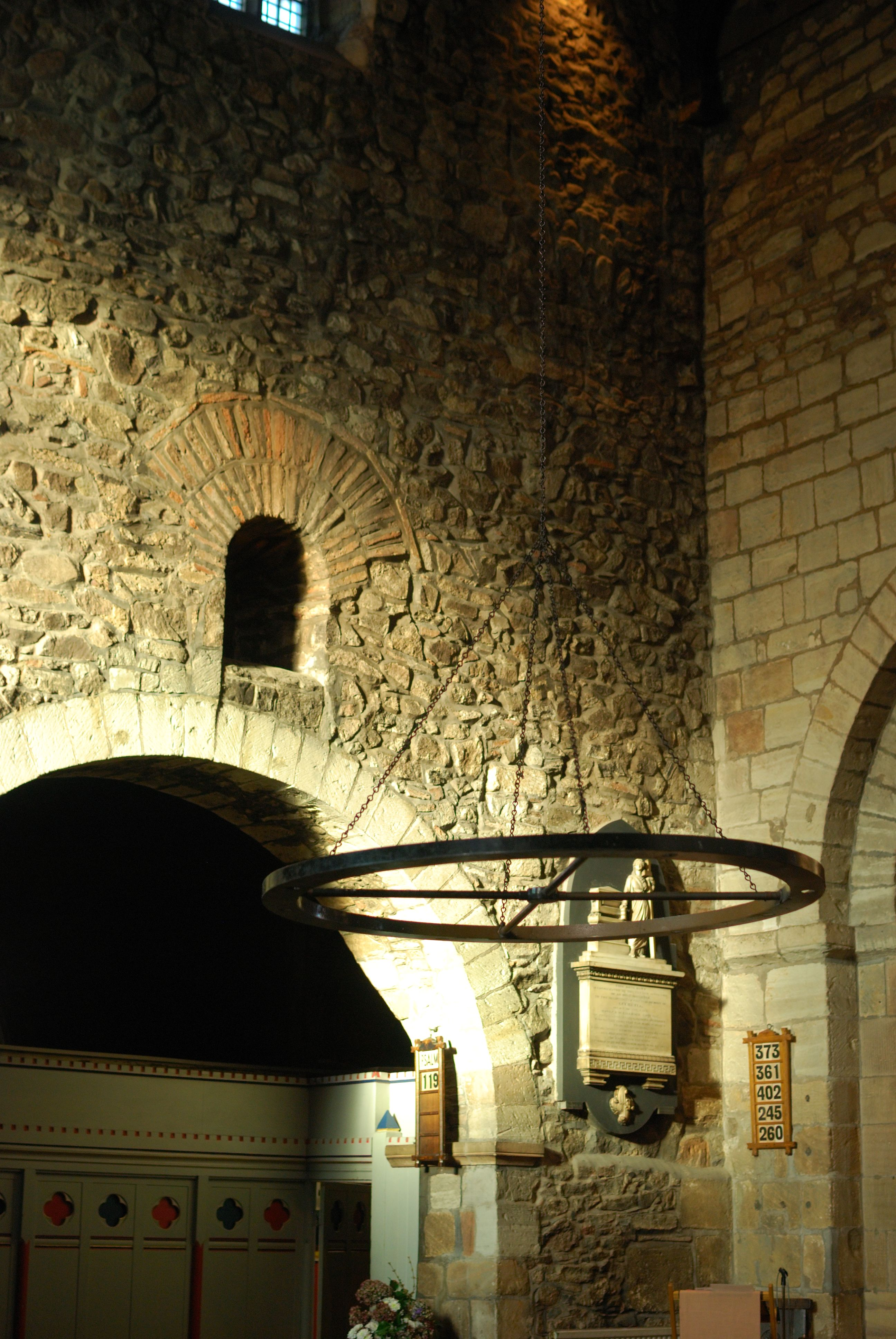 Anglo-Saxon window, Church of St Nicholas, Leicester